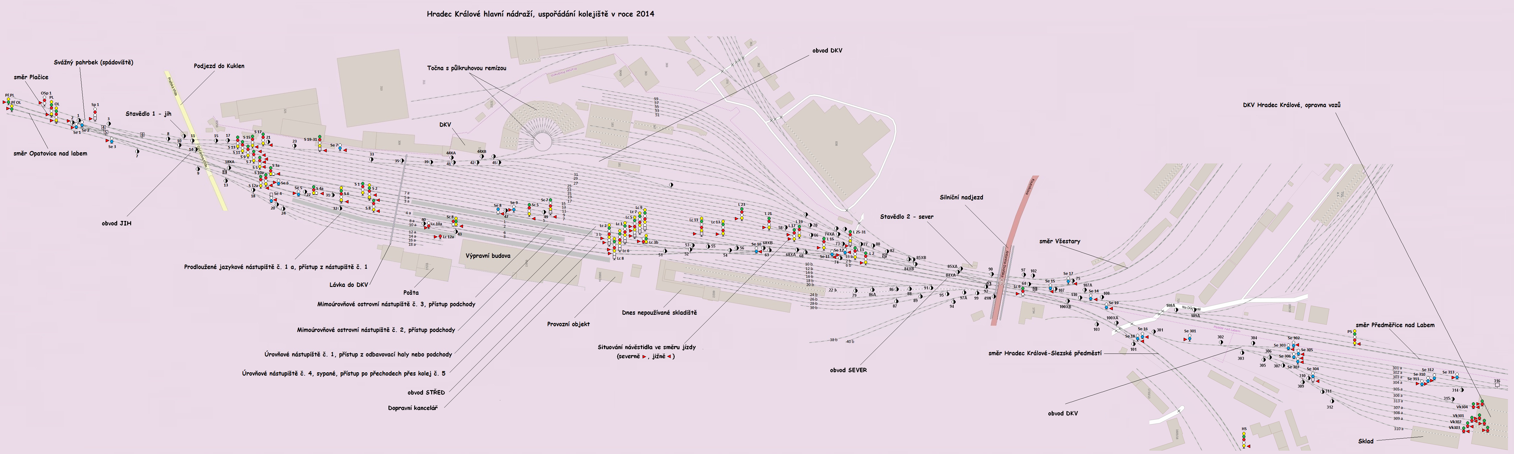 Hradec Králové train station (Czech Republic).OpenStreetMap image of map of Hradec Králové, 50°12′55″N 15°48′34″E / 50.215297°N 15.809470°E, from